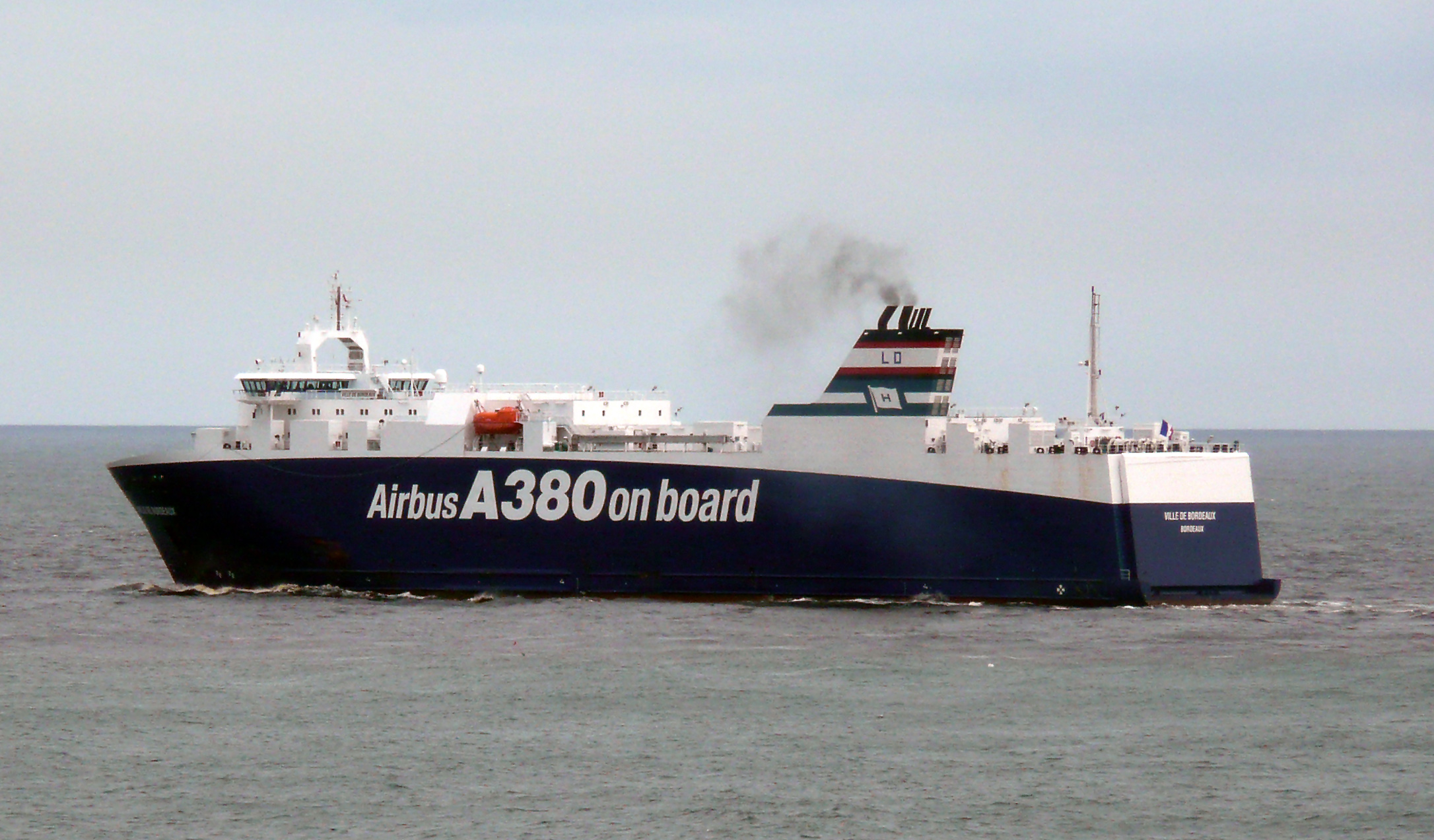 Ville de Bordeaux, sailing from the Tyne 13th July 2008. Built in 2004 to carry the Airbus A380 wings from the port of Mostyn in North Wales to Bordeaux, France. IMO Number: 9270842 MMSI Number: 228084000 Callsign: FZCE Length: 154 m Beam: 24 m GRT: 21523